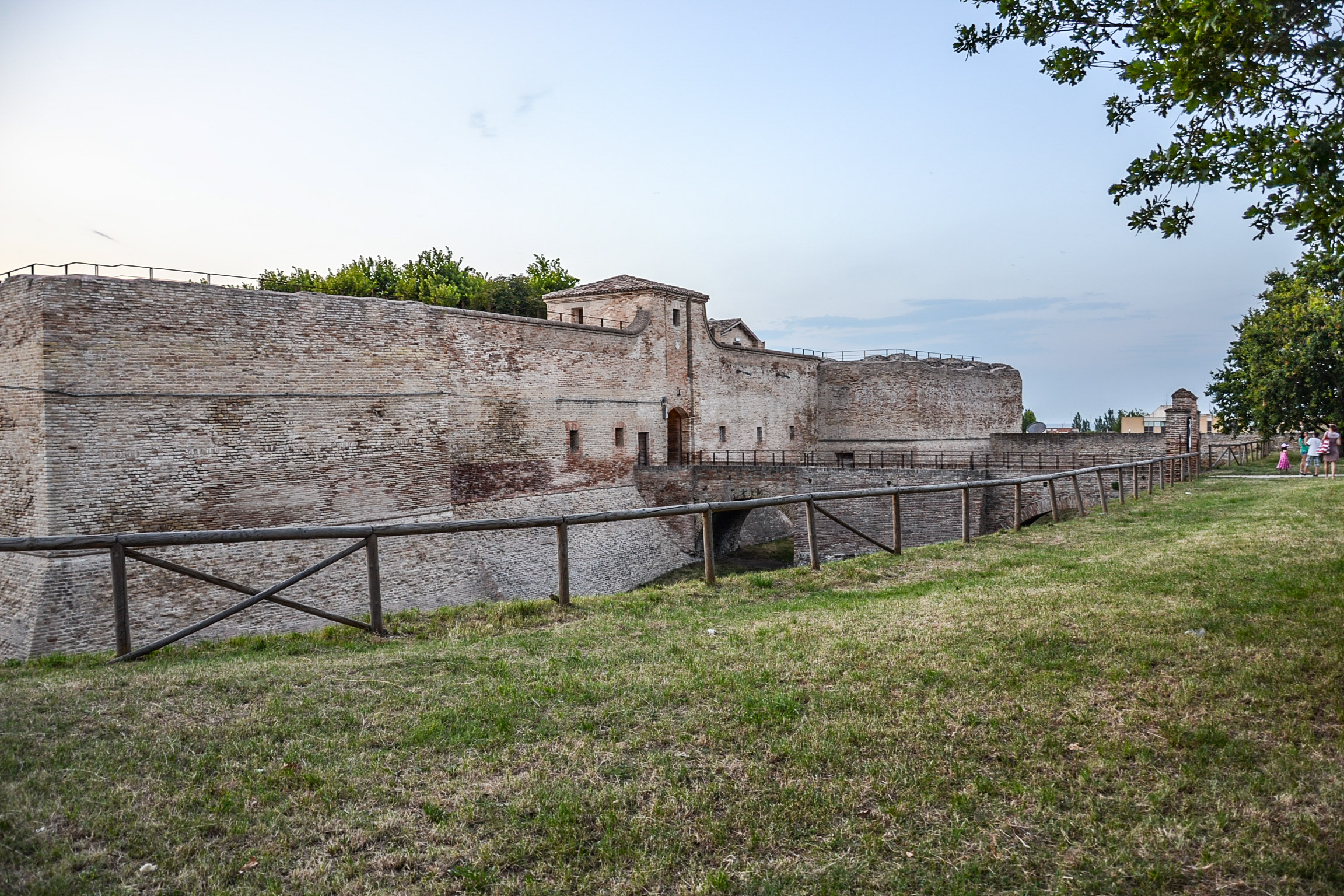 malattestianische castle from Fano (Marko)